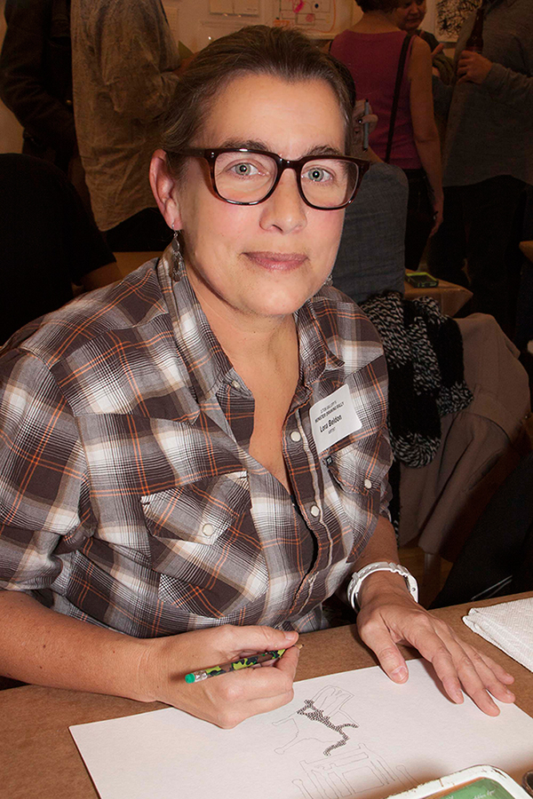 Portrait